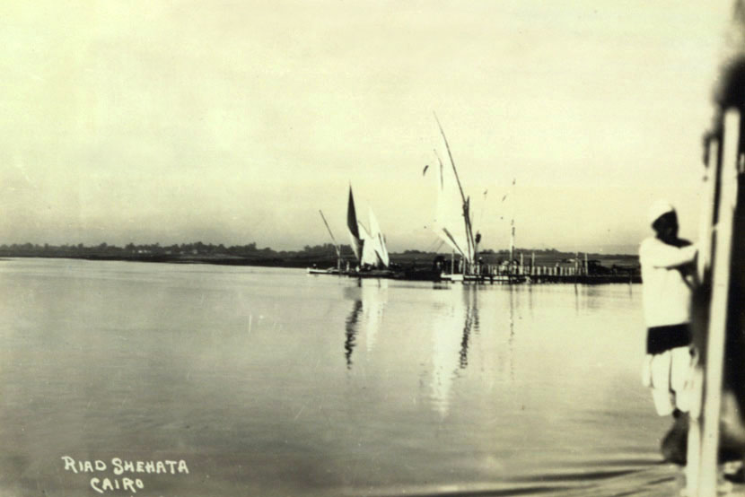 Opening ceremony of the Luxor-Aswan rail line 1926